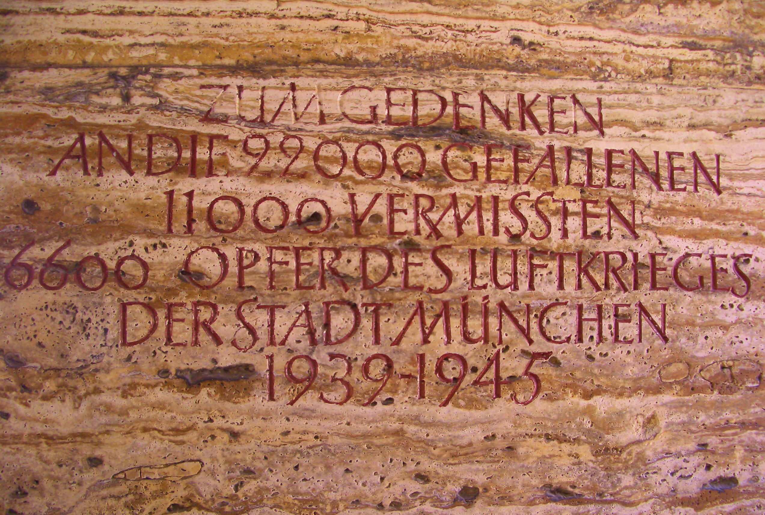 Memorial in the Hofgarten in Munich: inscription in the crypt for World War II